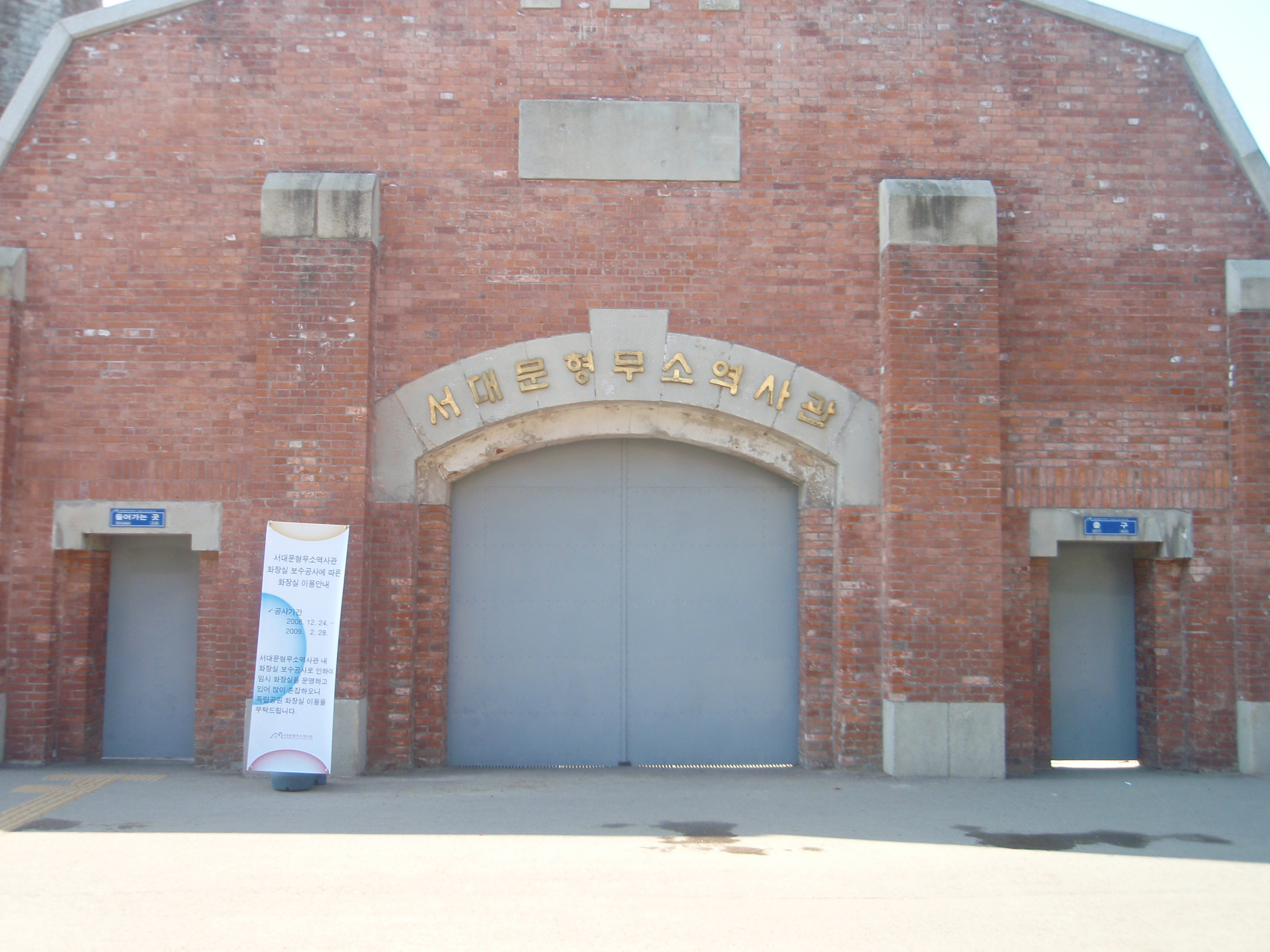 Seodaemun Prison, 2009